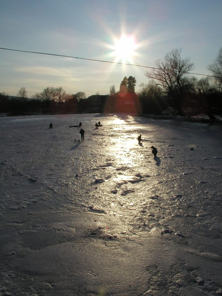 The frozen Uzh river near Nevitske (Trancarpathian Region, Ukraine)